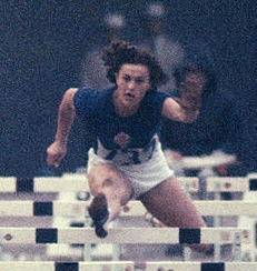 Draga Stamejčič in a 80 m preliminary at the 1964 Olympics